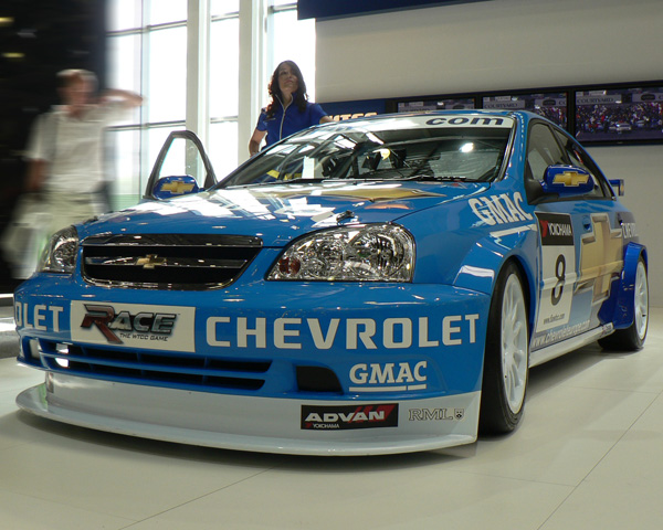 Chevrolet Lacetti WTCC at Moscow motor show "Interauto 2007"